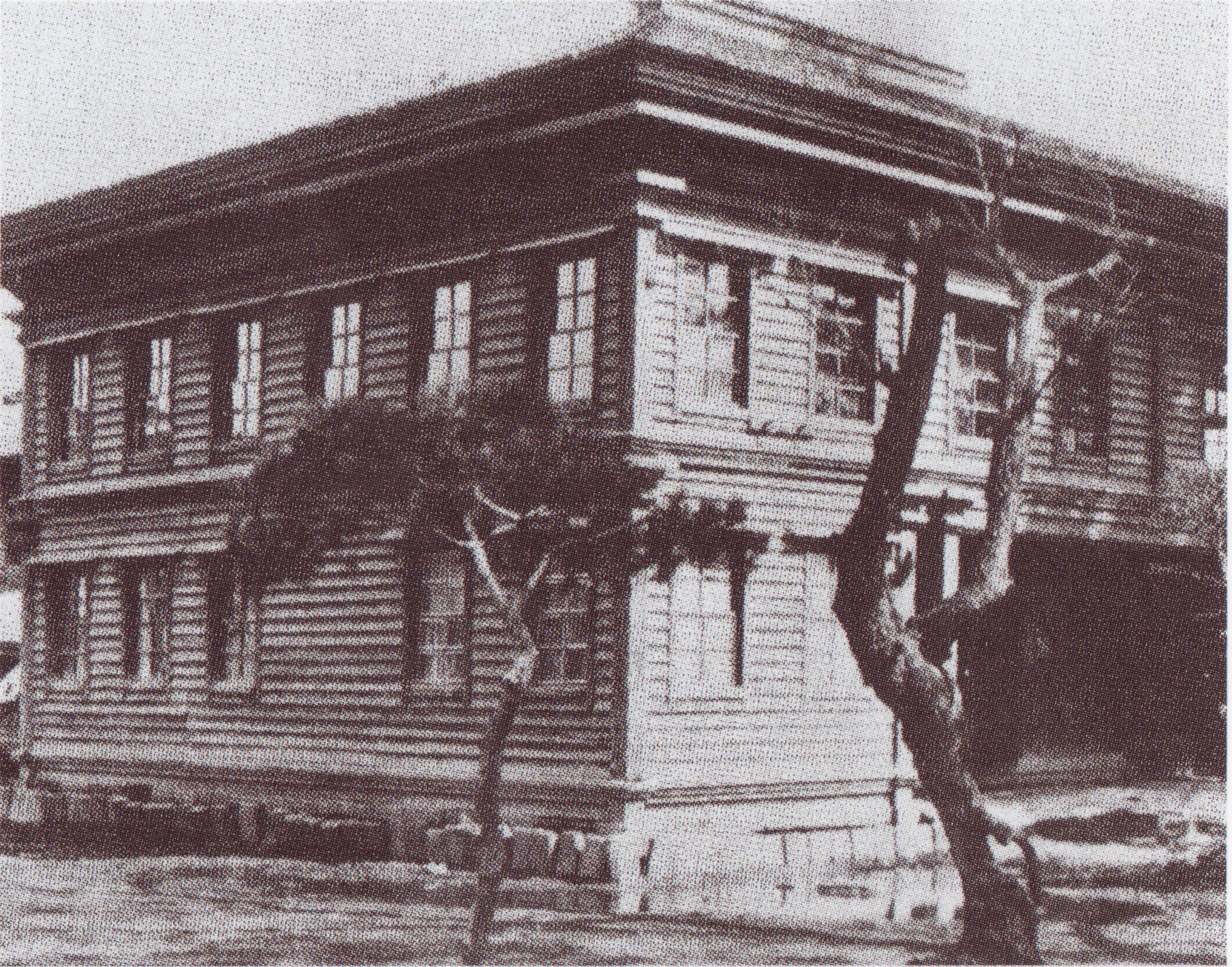 Hachinohe Elementary School in Hachinohe, Aomori pref., Japan.